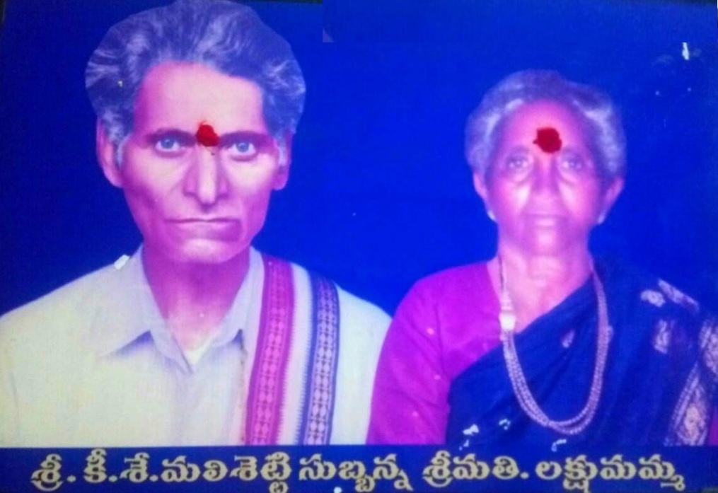 Malisetty Venkataramana parents : Subbanna & Laksumamma